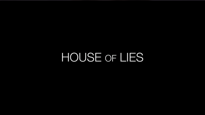 Title card of the American television series House of Lies.